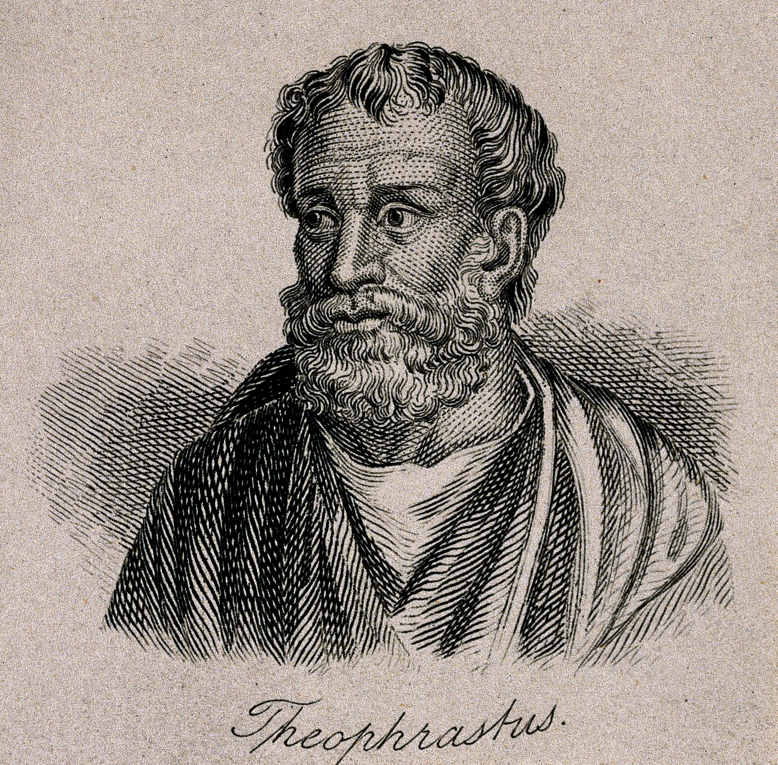 Theophrastus. Line engraving. Iconographic Collections Keywords: portrait prints; engravings; Theophrastus